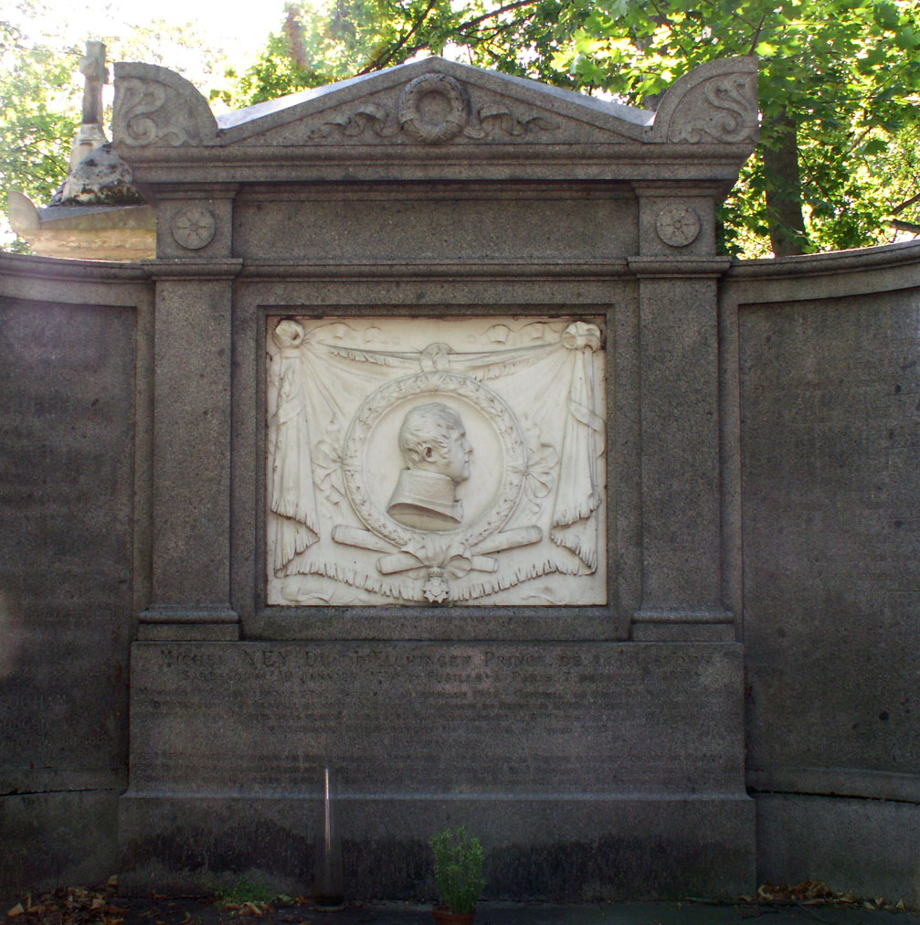 Grave of Michel Ney, in Père Lachaise.